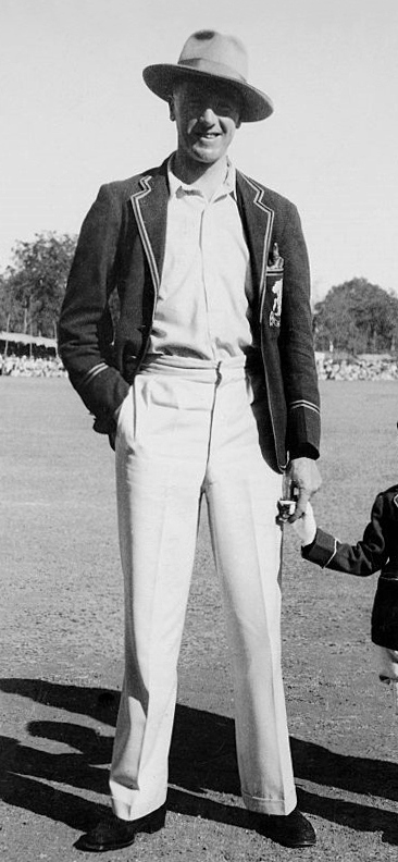 England cricketer Nobby Clark poses for a snapshot with the son of a local policeman before the match against Central Provinces and Berar at Nagpur during the MCC tour to India and Ceylon